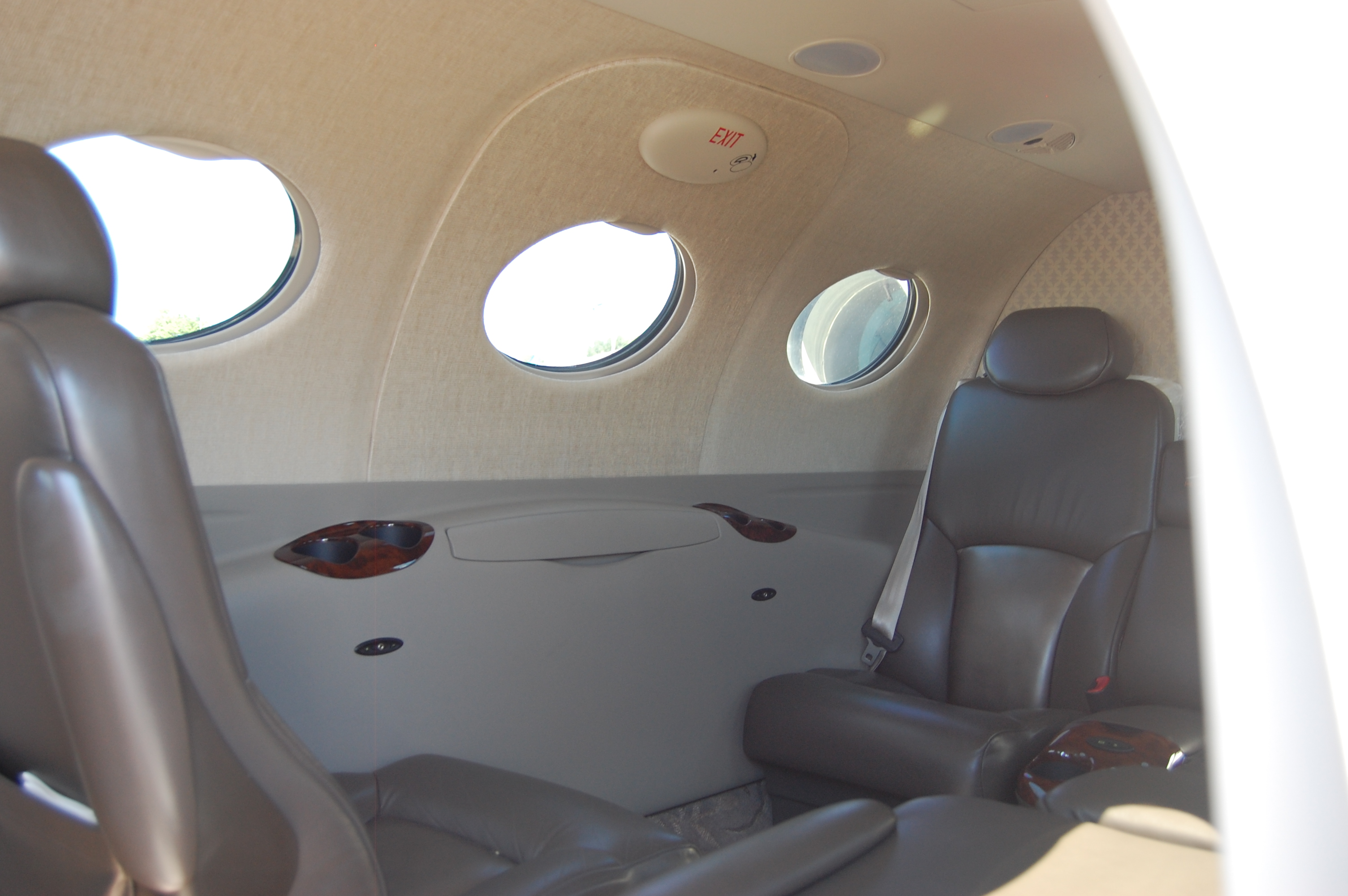 The interior of a High Sierra Edition Citation Mustang